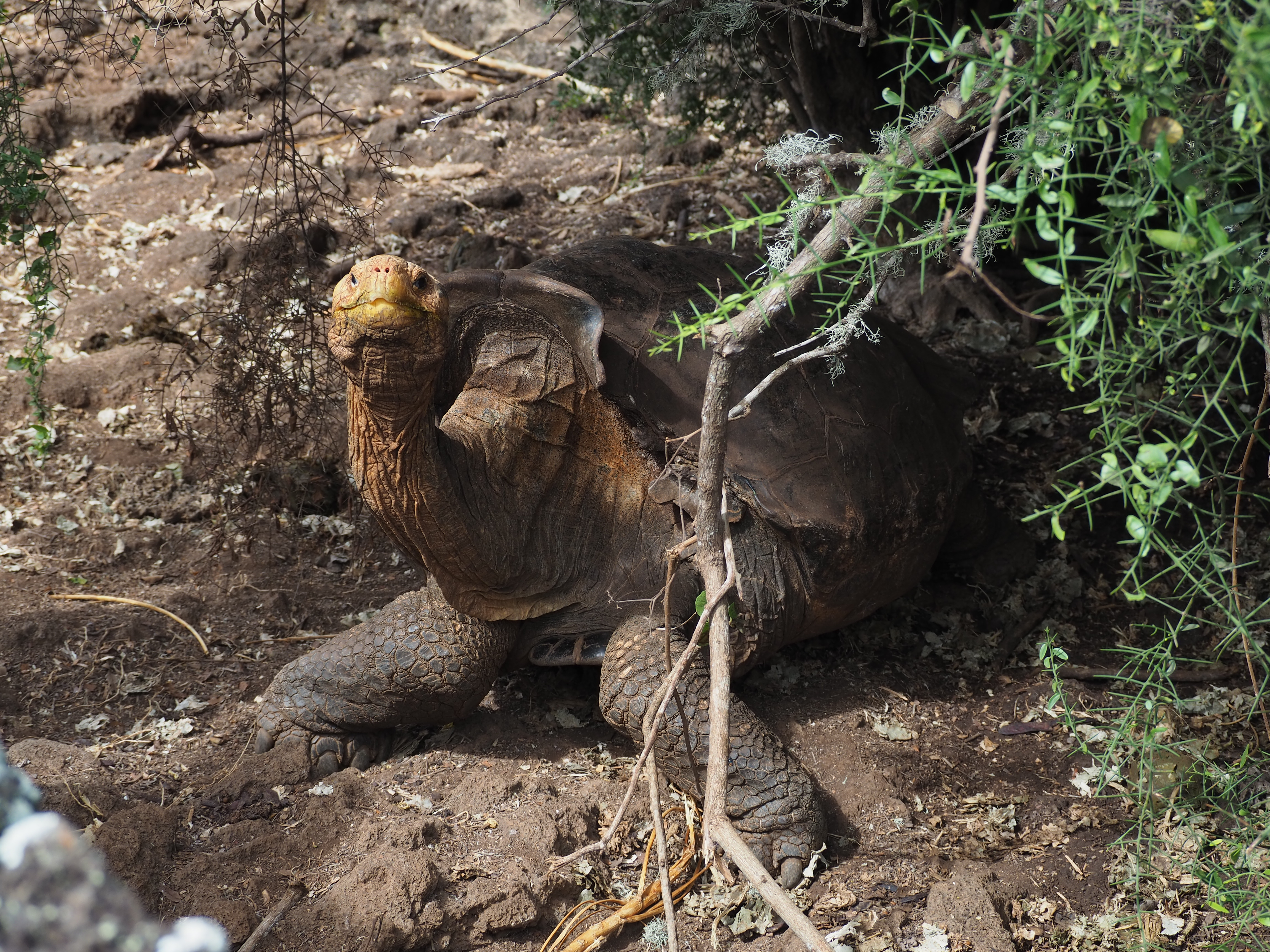 Diego, a Hood Island Giant Tortoise (Chelonoidis hoodensis) at the Charles Darwin Research Station in Santa Cruz, Galapagos